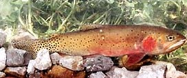 Oncorhynchus clarki utah — Bonneville cutthroat trout. Endemic fish of Utah.